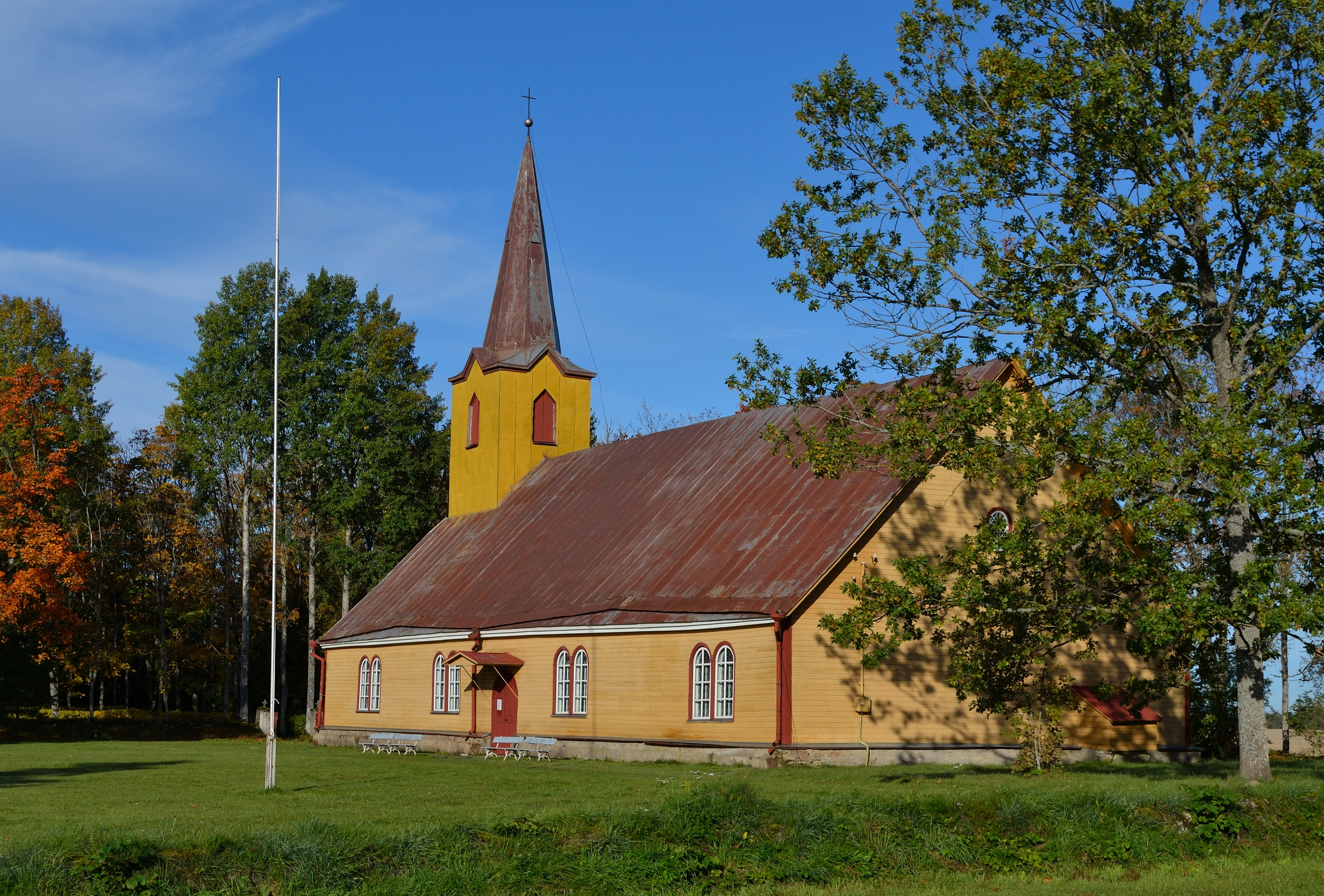 St. Peter's lutherian church in Kehtna